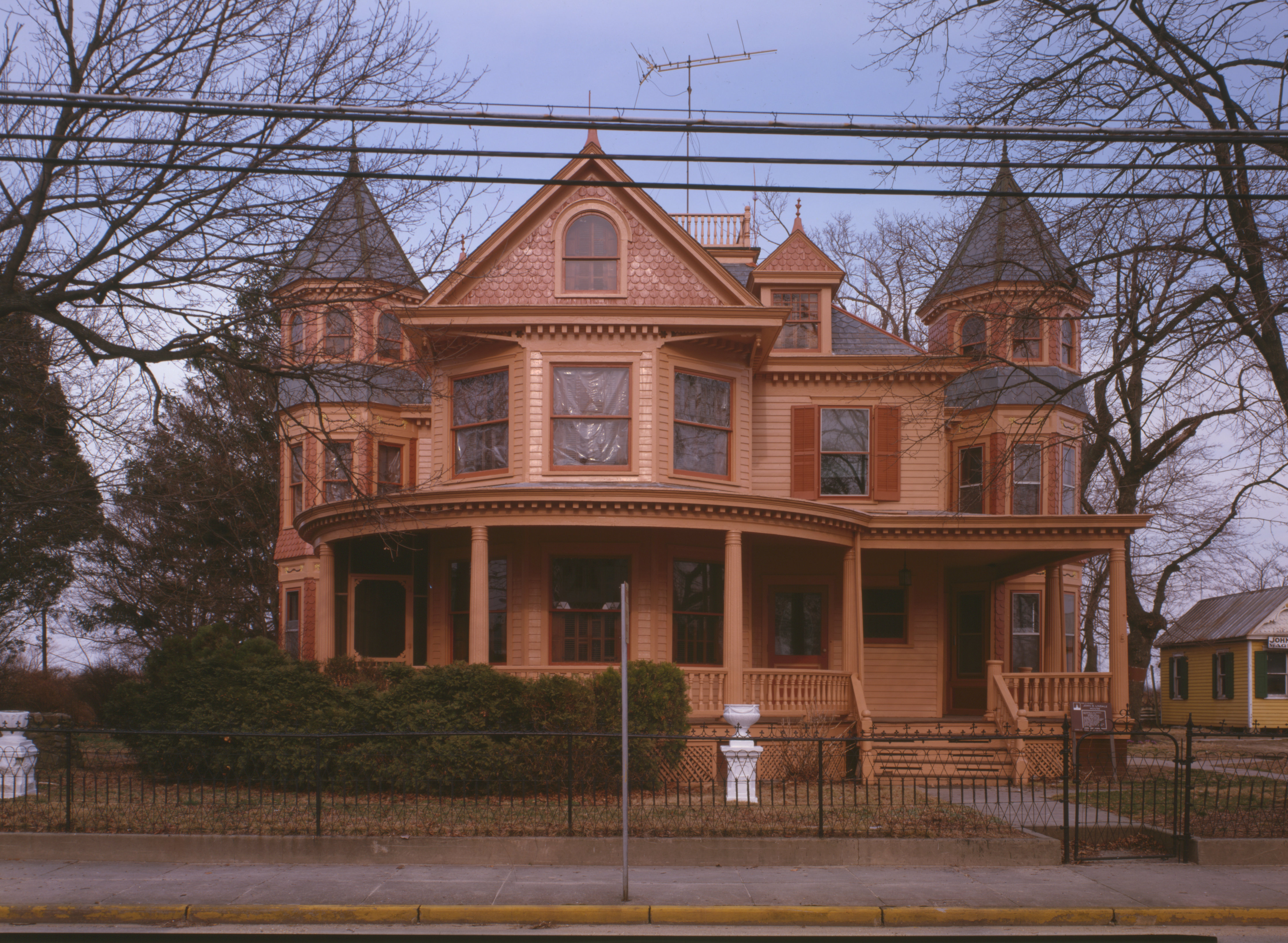 WEST FRONT - John B. Lindale House & Farm, 24 South Main Street, Magnolia, Kent County, DE